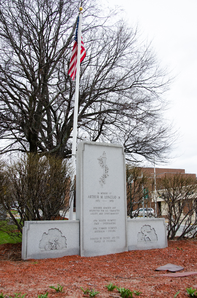 Memorial marker for Arthur Longsjo in Fitchburg, Massachusetts. "In memory of Arthur M. Longsjo Jr. 1931-1958 Honored, admired and respected for his character, ability and sportsmanship. 1956 Winter Olympics Italy -- Speedskating 1956 Summer Olympics Australia -- Cycling Donated by friends and the people of Fitchburg"